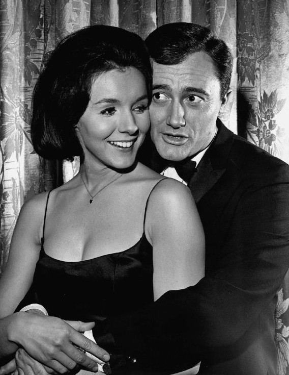 Photo of Robert Vaughn as Napoleon Solo and guest star Kathryn Hays from the television program The Man From U.N.C.L.E..